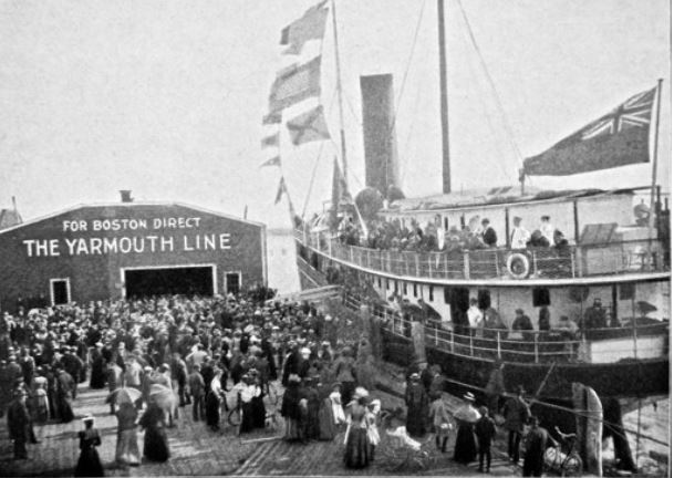 SS Yarmouth (ship, 1887) moored at Baker’s wharf, Yarmouth Harbour. ("Beautiful Nova Scotia," p. 60, 1900, YCMA)